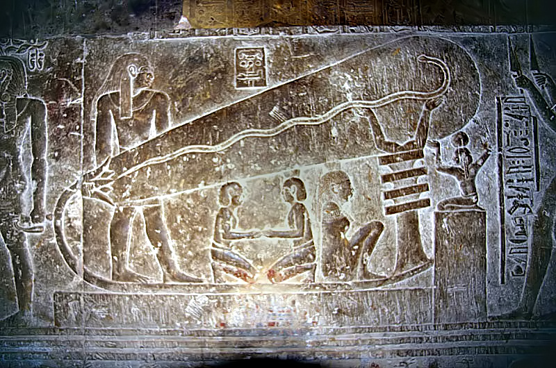 Relief in a crypt in the Temple of Hathor, Dendara, Egypt